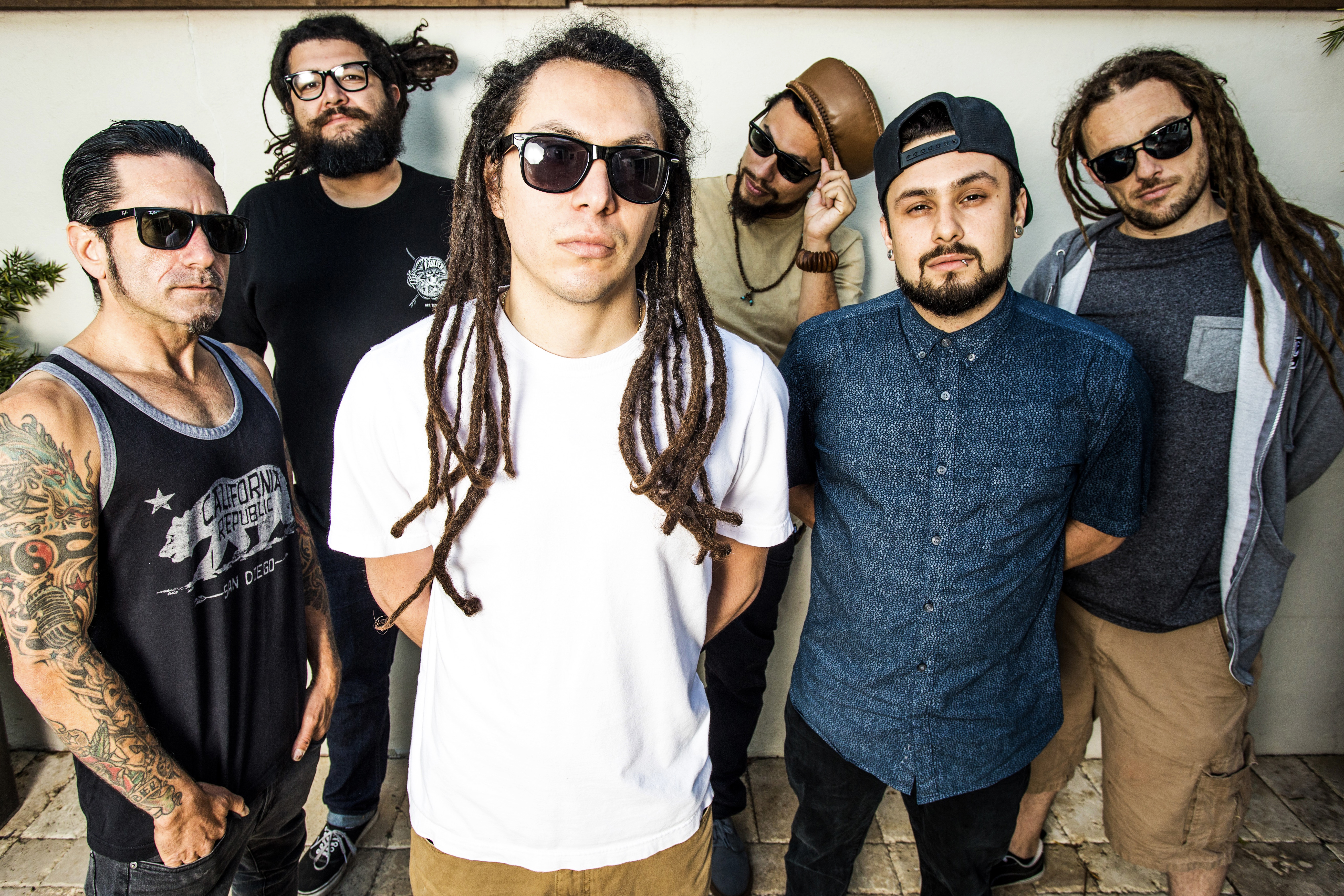 Official Tribal Seeds photo (2017)